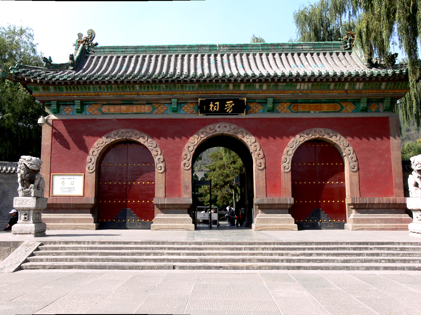 Jin Temple, Taiyuan